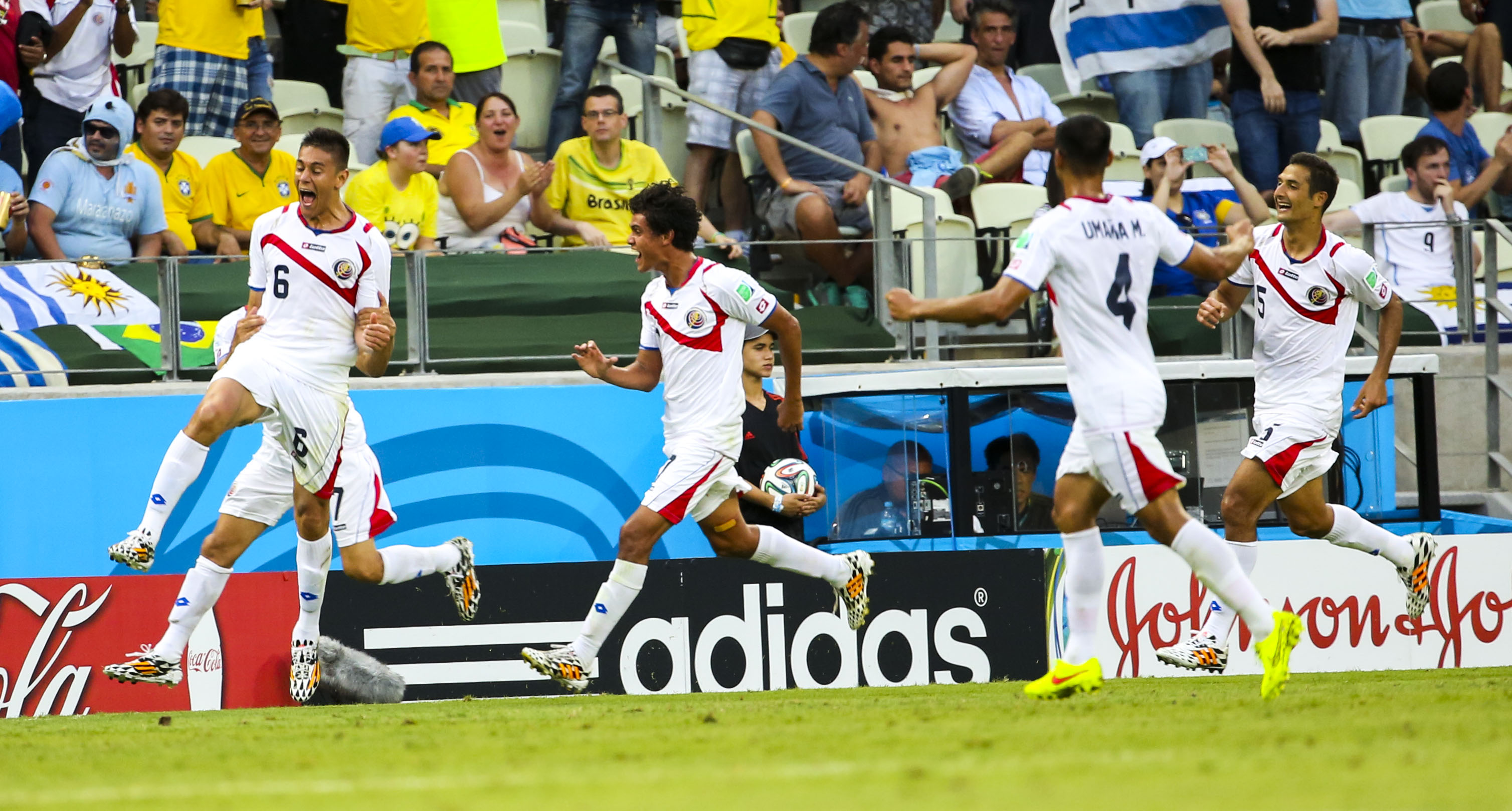 Uruguay and Costa Rica match at the FIFA World Cup 2014-06-14